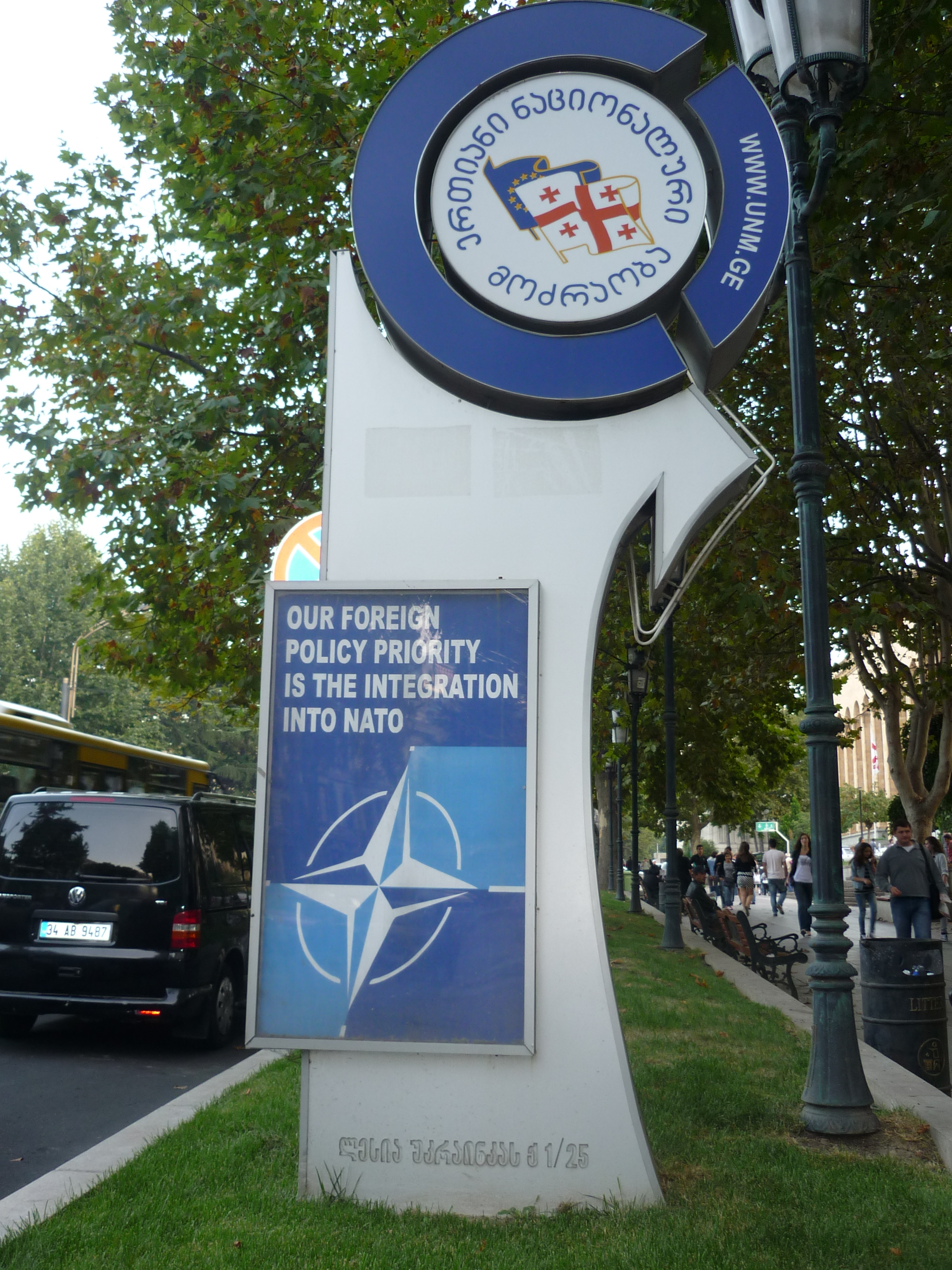 Sign of Nato, showing Georgia's will to join Nato, propaganda of the UNM party - Rustaveli avenue, Tbilisi (recto side)